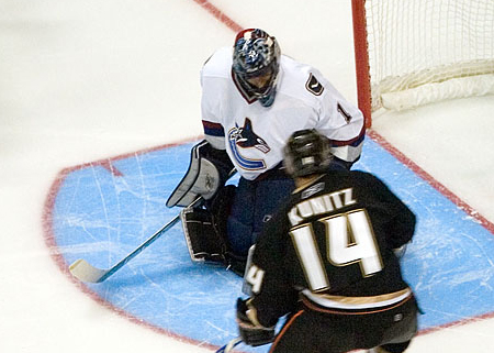 Anaheim Ducks forward Chris Kunitz at the lip of Vancouver Canucks goalie Roberto Luongo's crease.